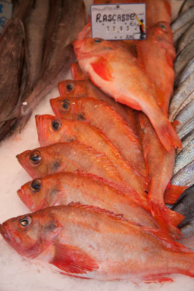 There is no way away around it - the food in Paris is incredible. On the day my old friends Francie and Bernadette came over from Belgium we did a long marching tour of Paris - and went through an open air market - my God - the smells and sights - it was sensory overload - great food everywhere. We sampled some it - oo la la - but it was just around closing time and they were putting everything away or I could have lingered there for hours. Who wants to go sightseeing when there is good food to be had?